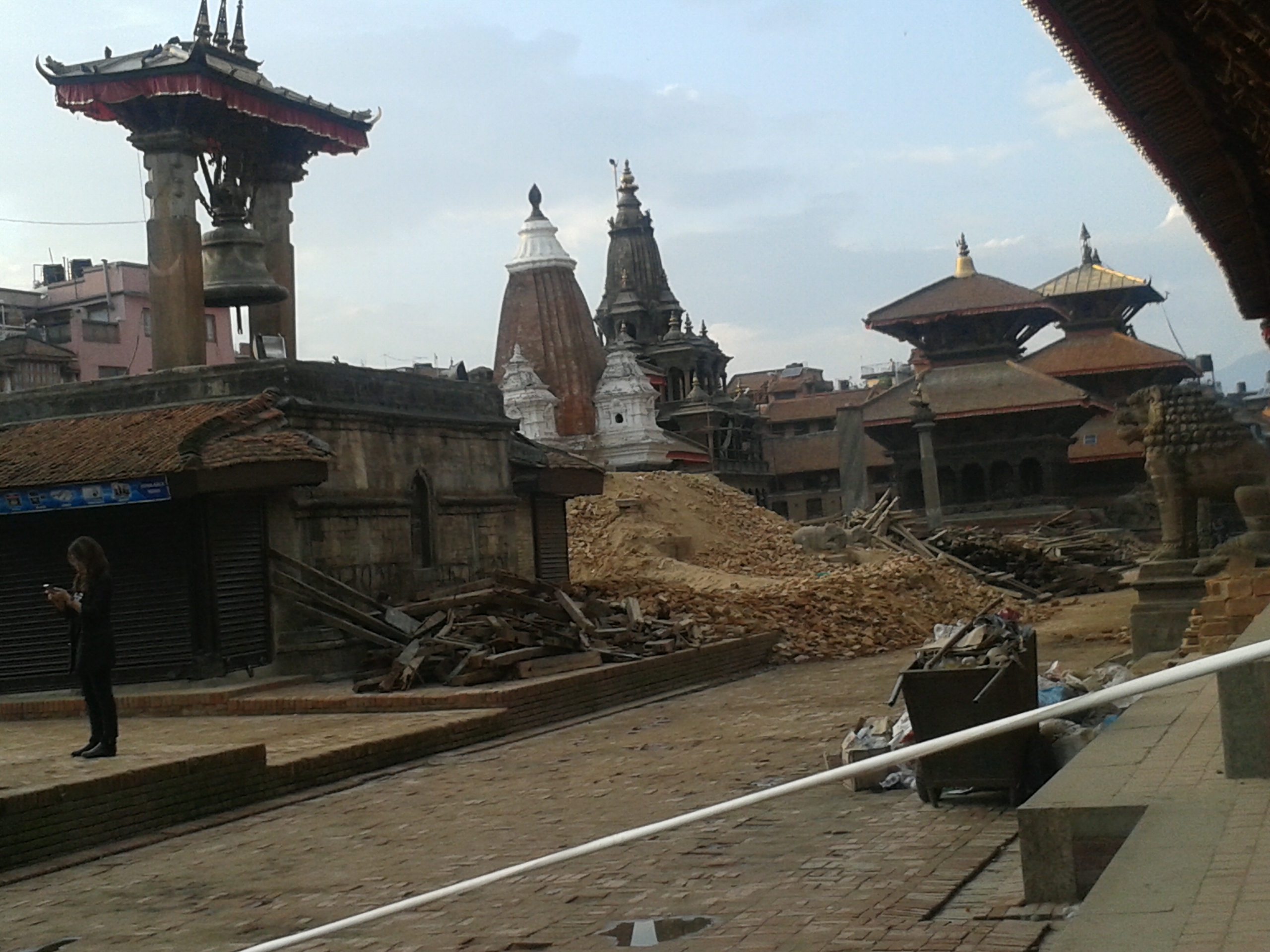 A scene of Mangal Bazaar after the massive earthquake.